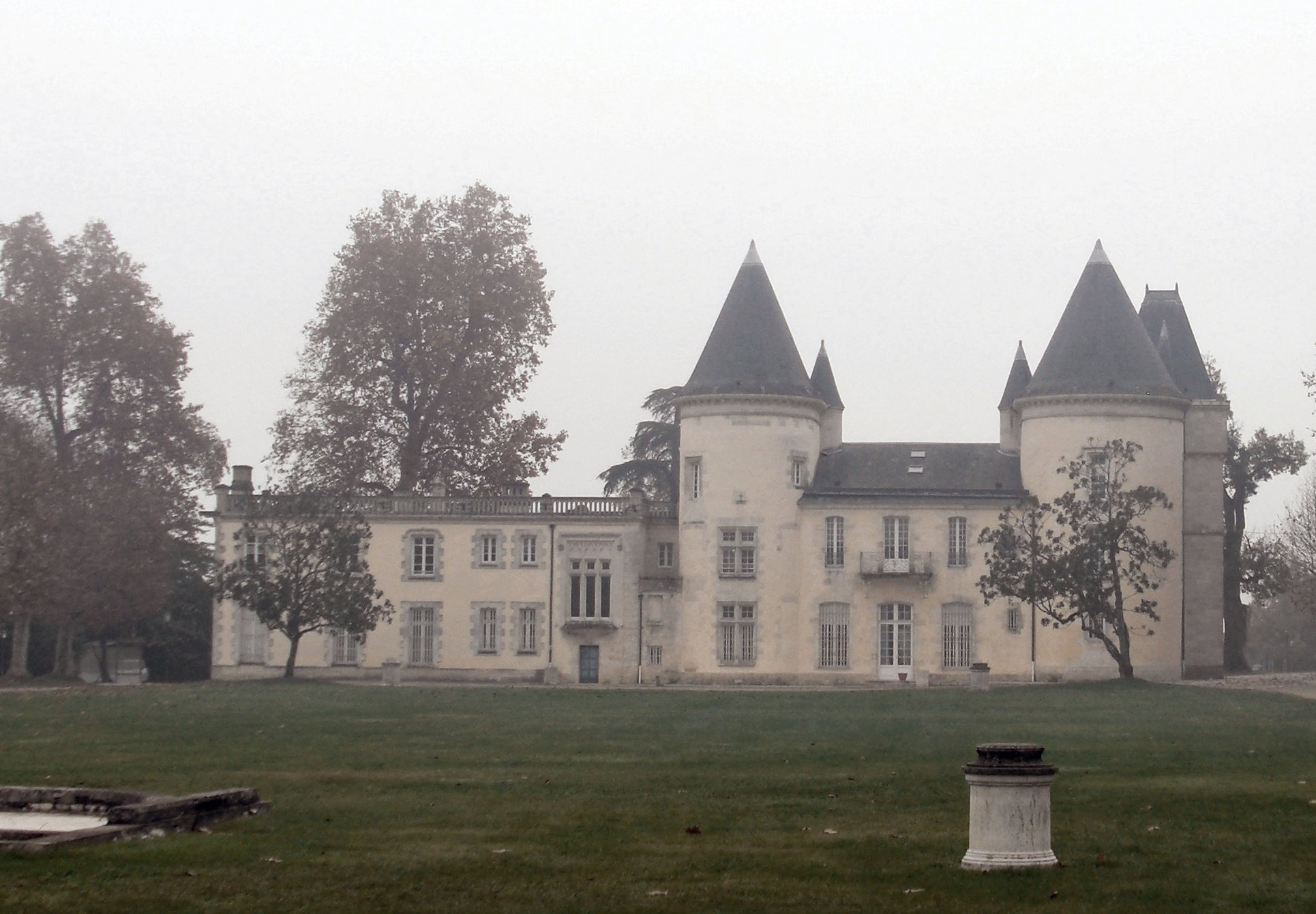 Thouars Castle in France, (Talence - Gironde) North face in the fog, 13th century.